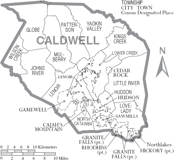 Map of Caldwell County, North Carolina, United States with township and municipal boundaries